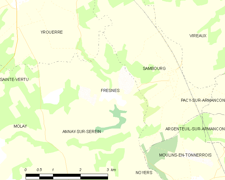 Map of French municipality Fresnes